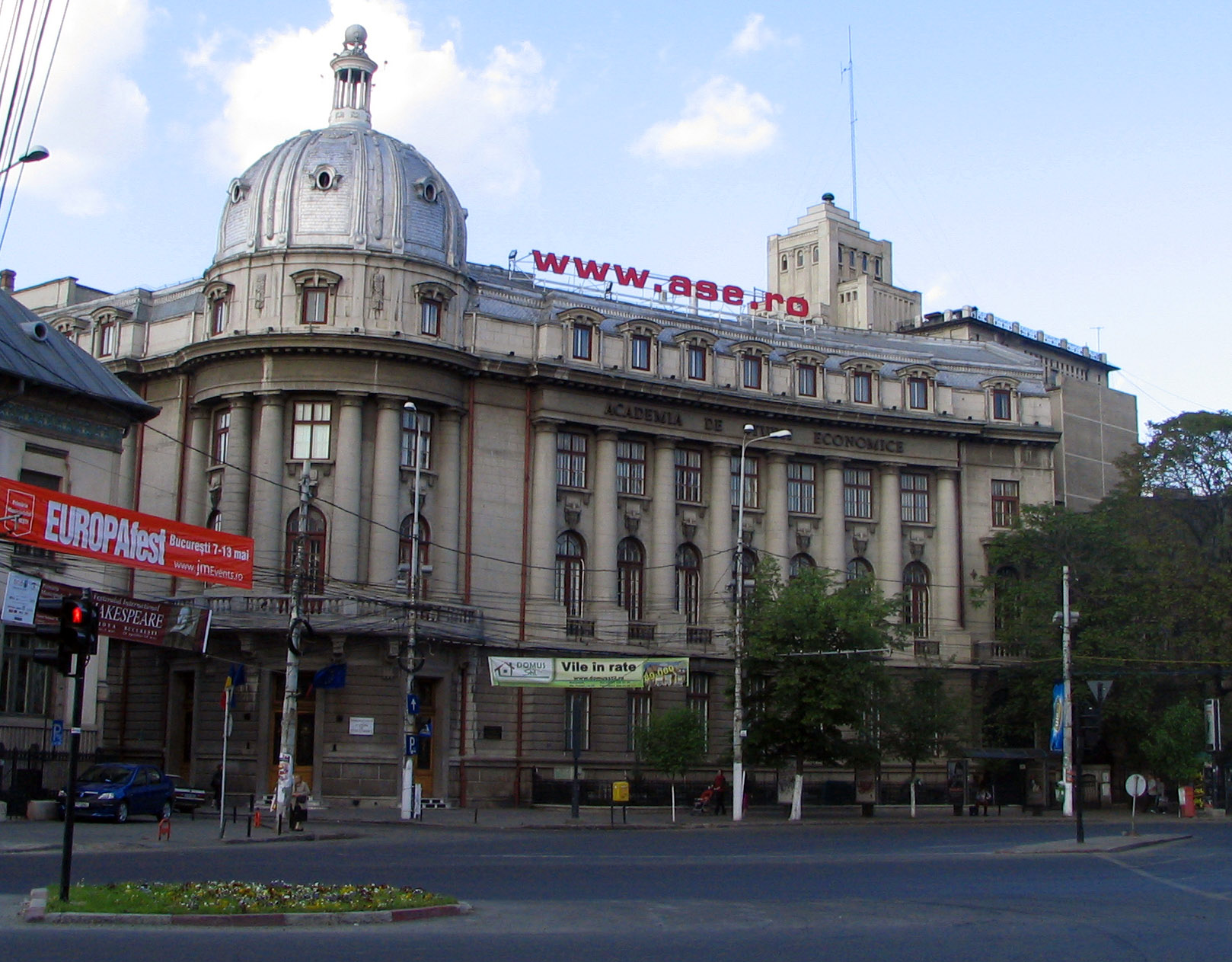 Academy of Economic Studies building in Bucharest, Romania